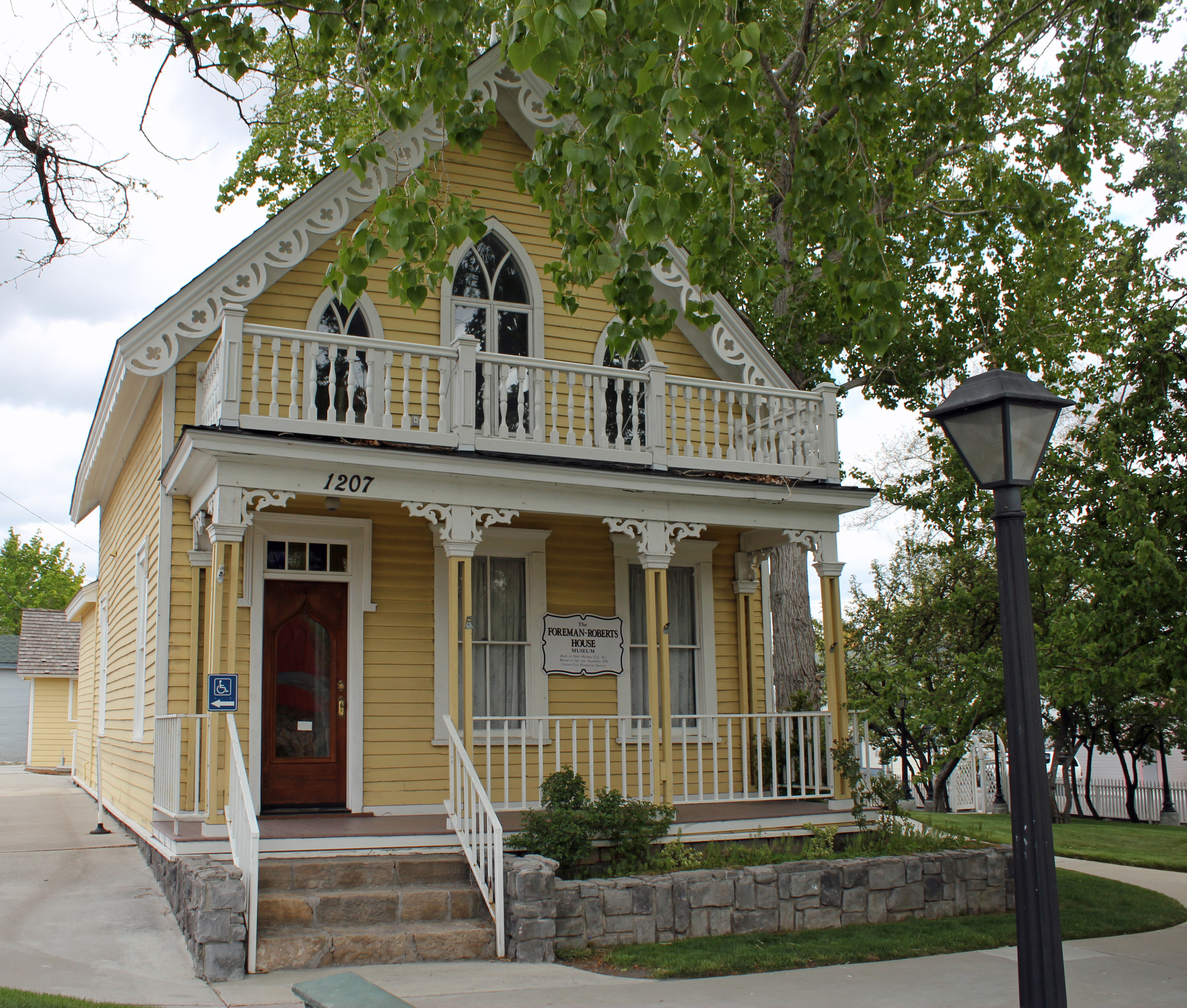 The Foreman-Roberts House, located at 1217 North Carson Street in Carson City, Nevada. The house is listed on the National Register of Historic Places.